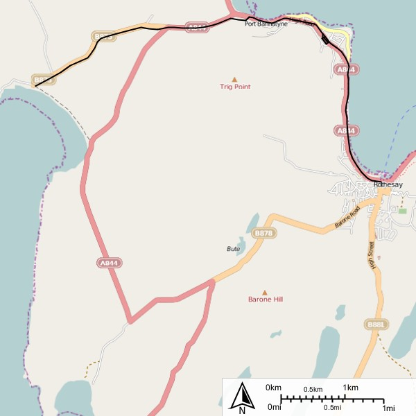 Rothesay and Ettrick Bay Light Railway Legend: *━━━ Primary lines *━━━ Secondary lines *━━━ Tertiary lines